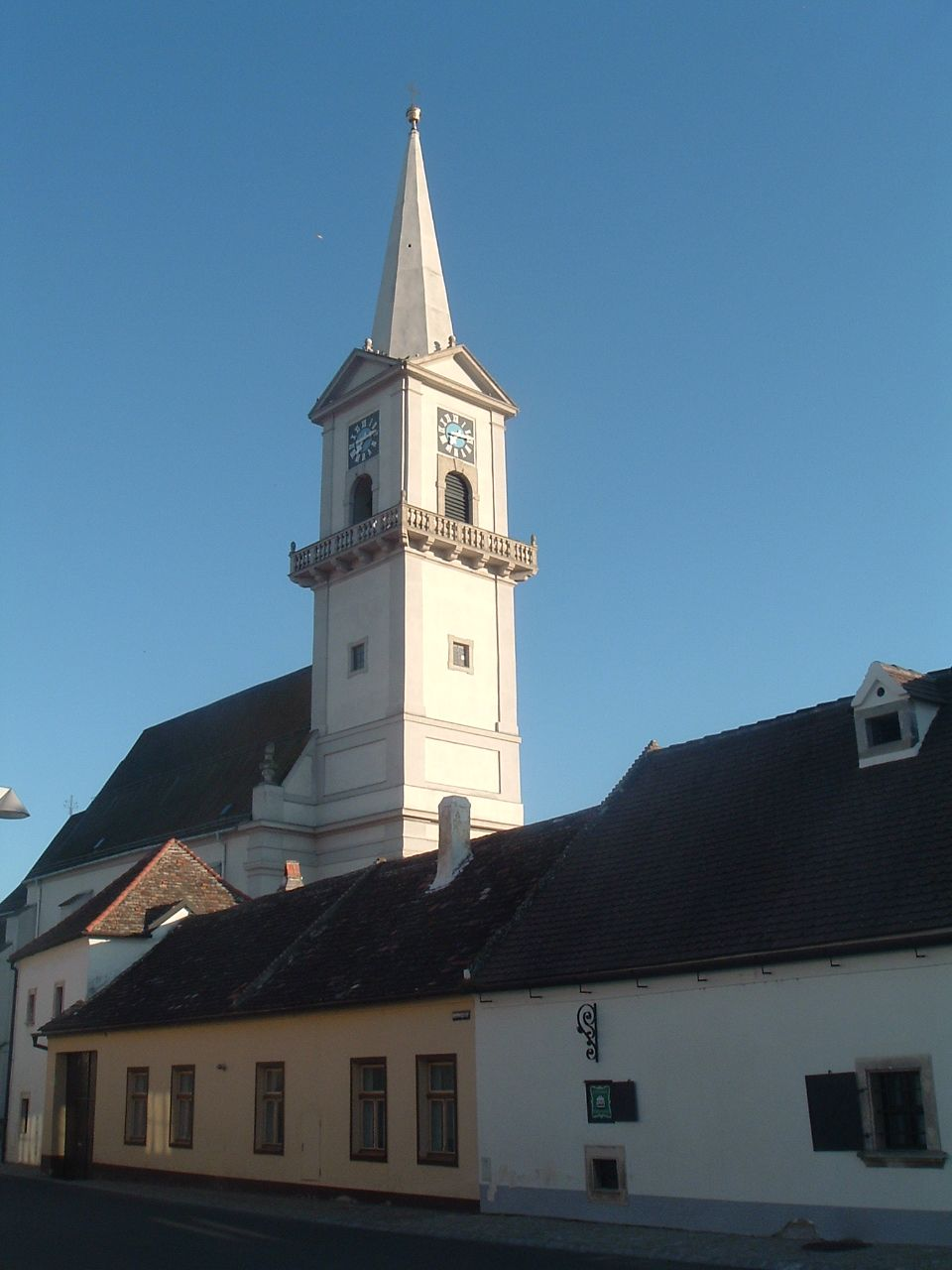 Purbach am Neusiedler See, Austria